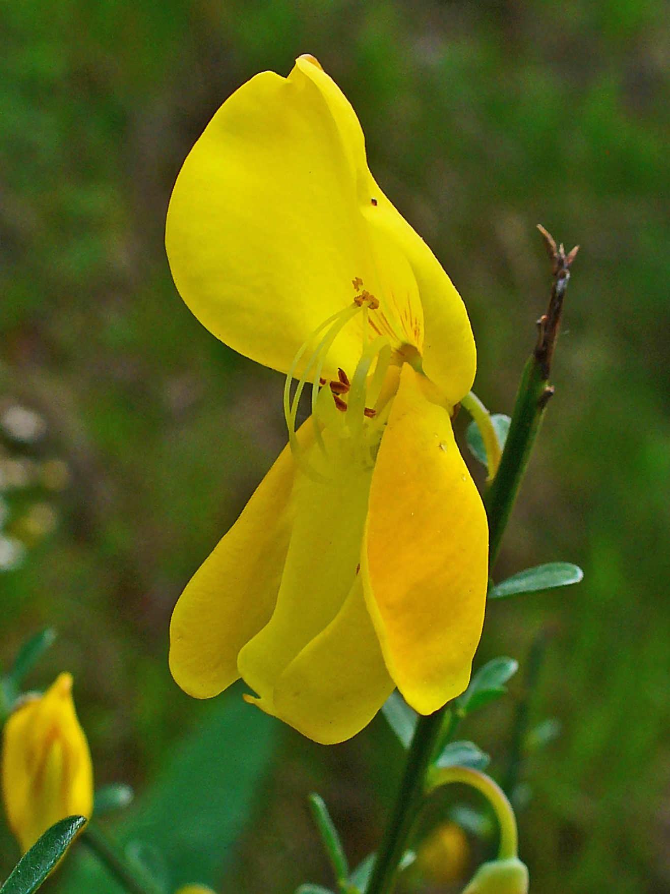 Cytisus scoparius, Fabaceae, Common Broom, flower; Waldbronn, Germany. The fresh, stripped off flowers with the leaves, without branchtips, are used in homeopathy as remedy: Spartium scoparium (Spar.)